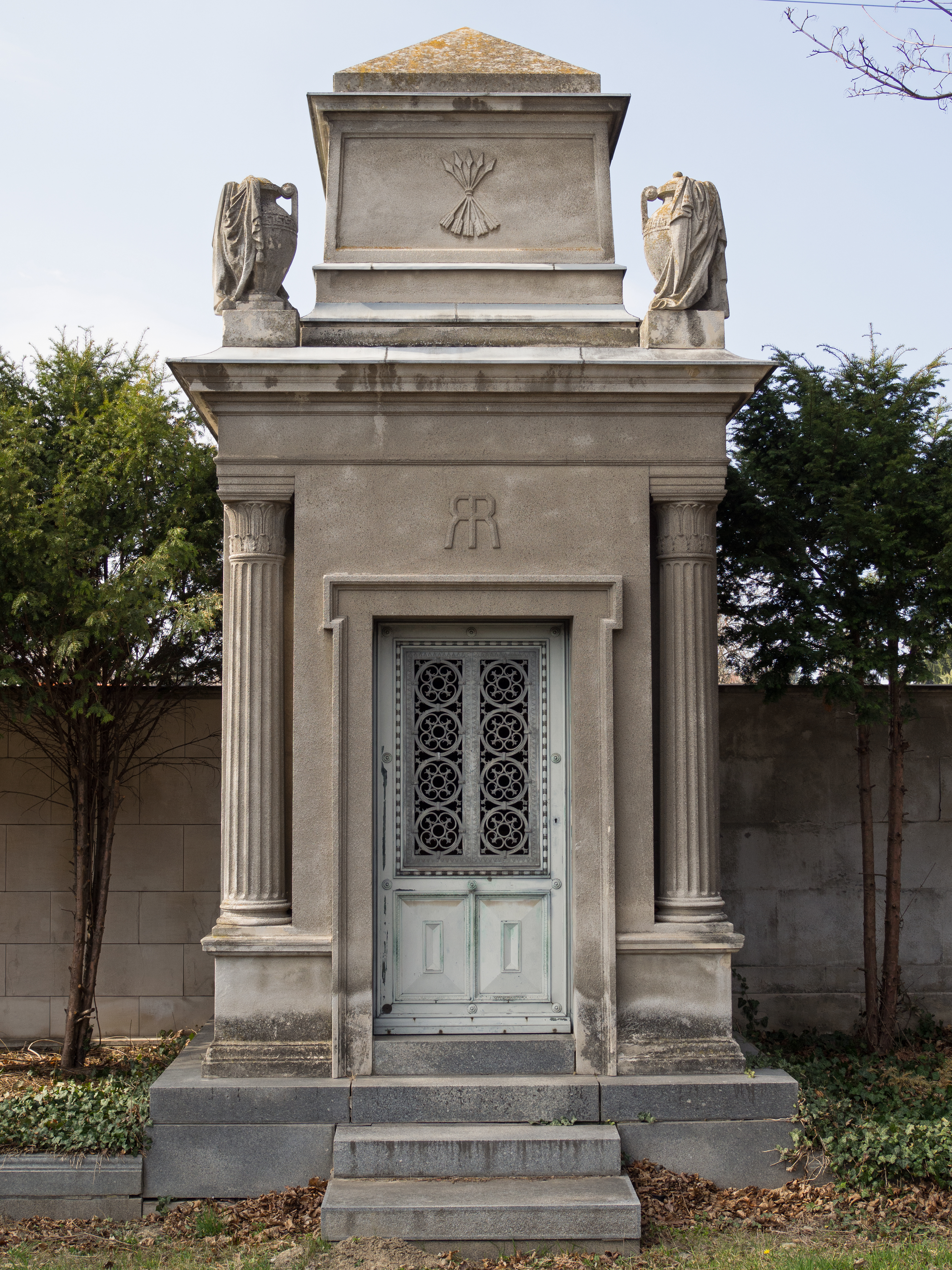 Mausoleum of the Rothschild family in the old Jewish section of the Vienna Central Cemetery. Architect: Wilhelm Stiassny